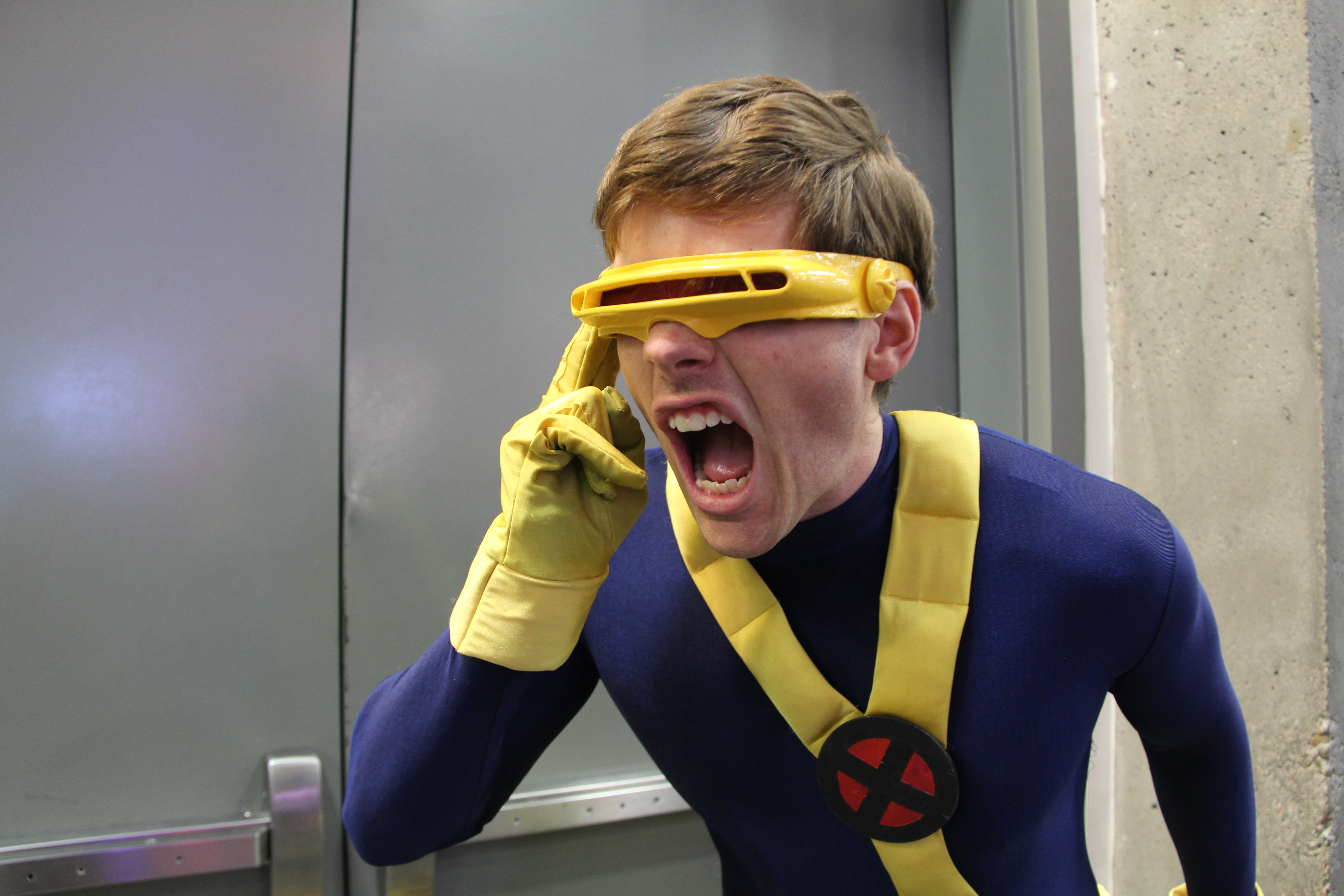 Cosplay at San Diego Comic Con 2015.